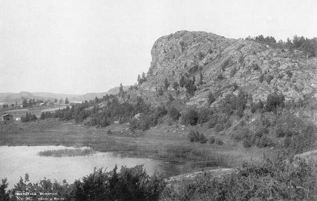 Riekkalansaari, Riutanvuori, Sortavala, Finland in 1895.